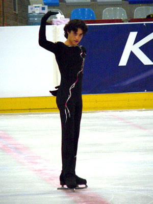 Javier Fernandez during his long program at the 2006 Junior Grand Prix event in The Hague, Netherlands